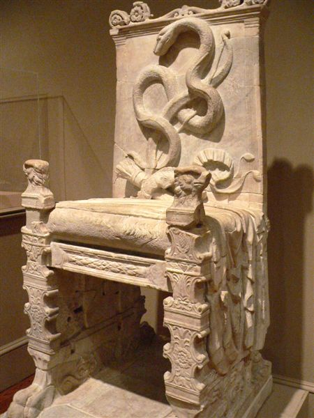 Roman Throne 1st century CE, Los Angeles County Museum of Art, California, USARoman Throne 1st century CE